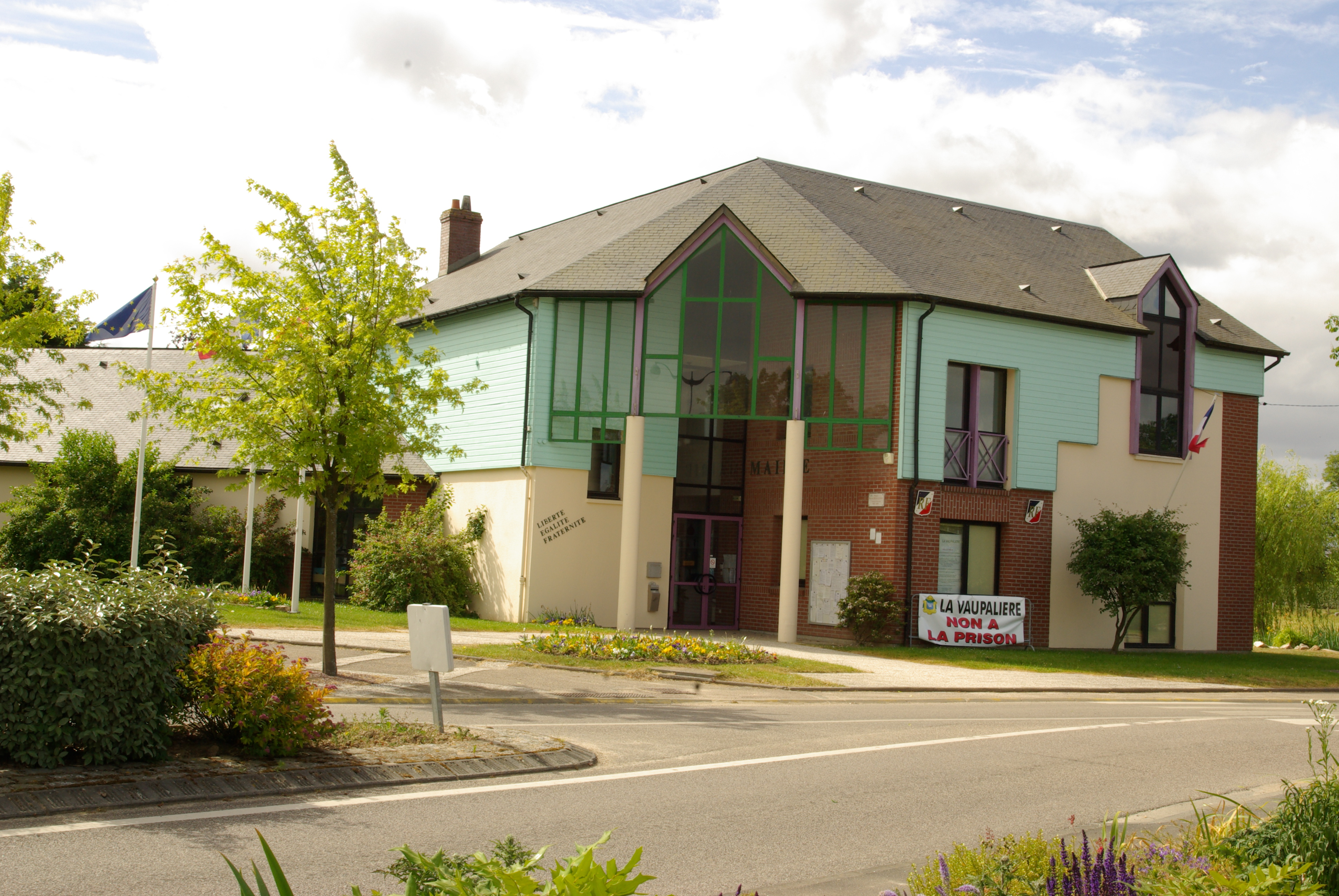 La Vaupalière City Hall